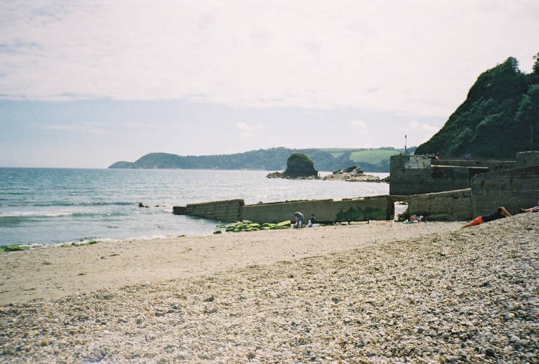 Charlestown Beach, near St Austell, Cornwall, England. Taken by fabiform